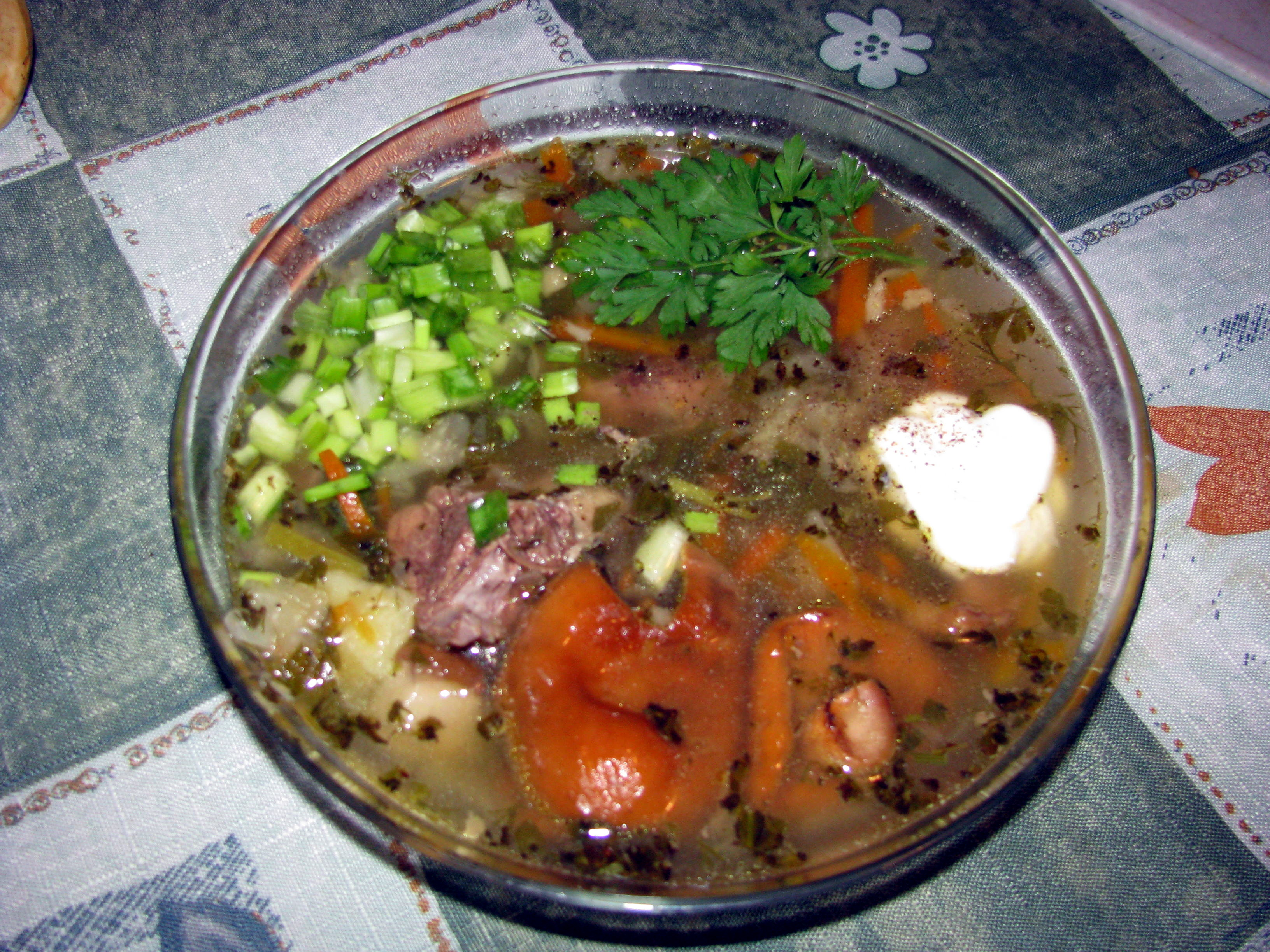 a course of Schi, a russian soup